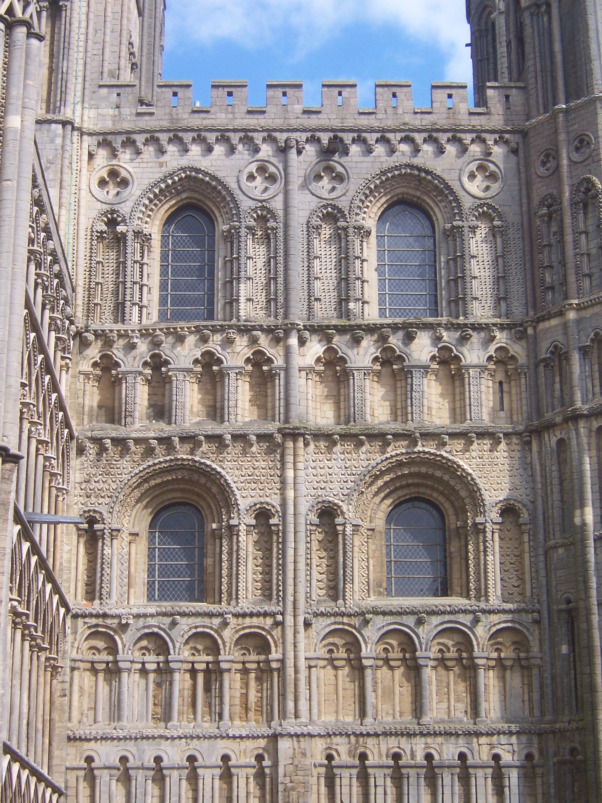 Ely Cathedral